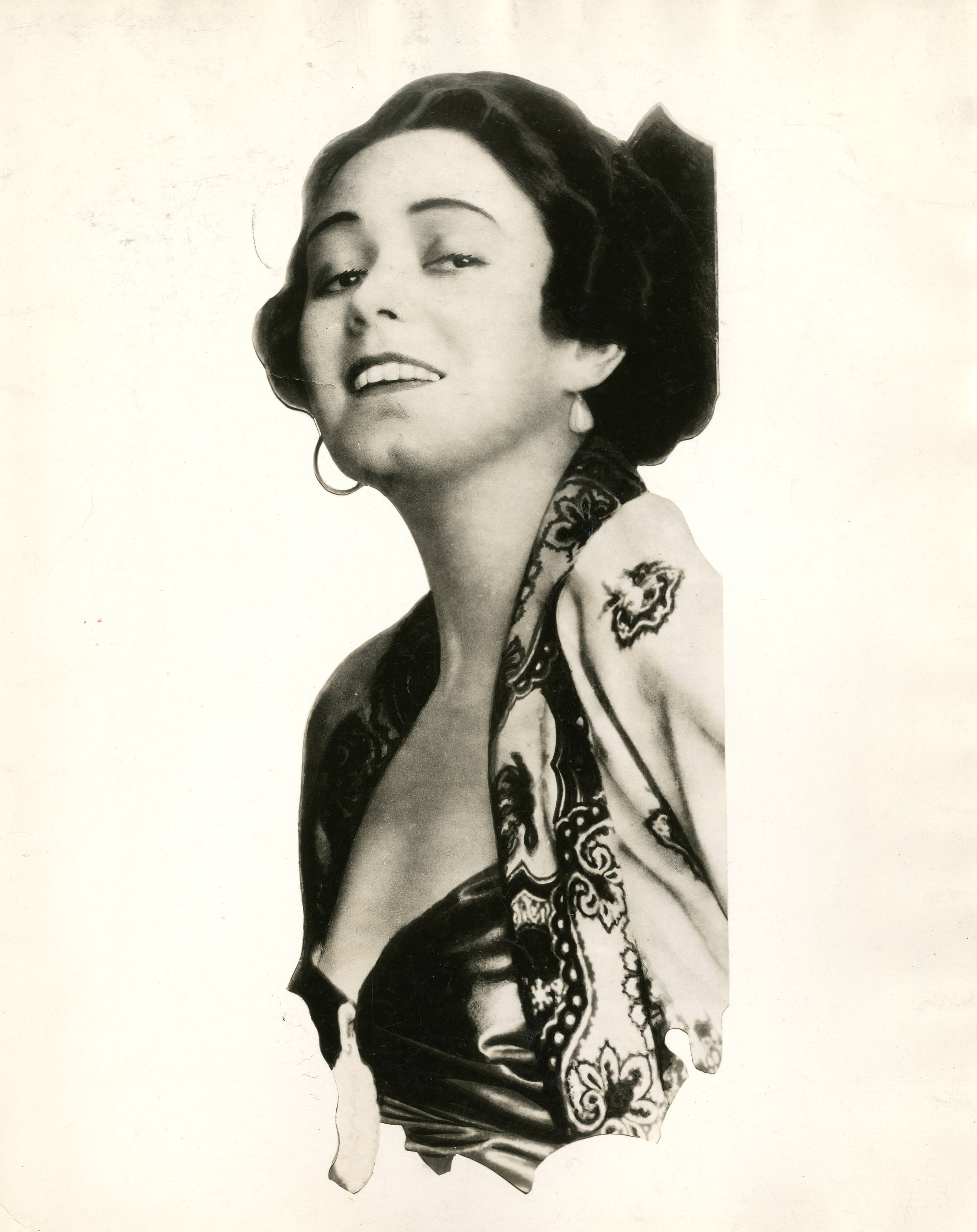 silent film actress Carmen Castellieri. Subjects: actresses